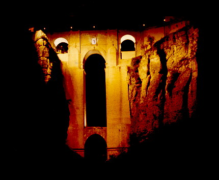 Ponte Nuevo in Ronda by night.